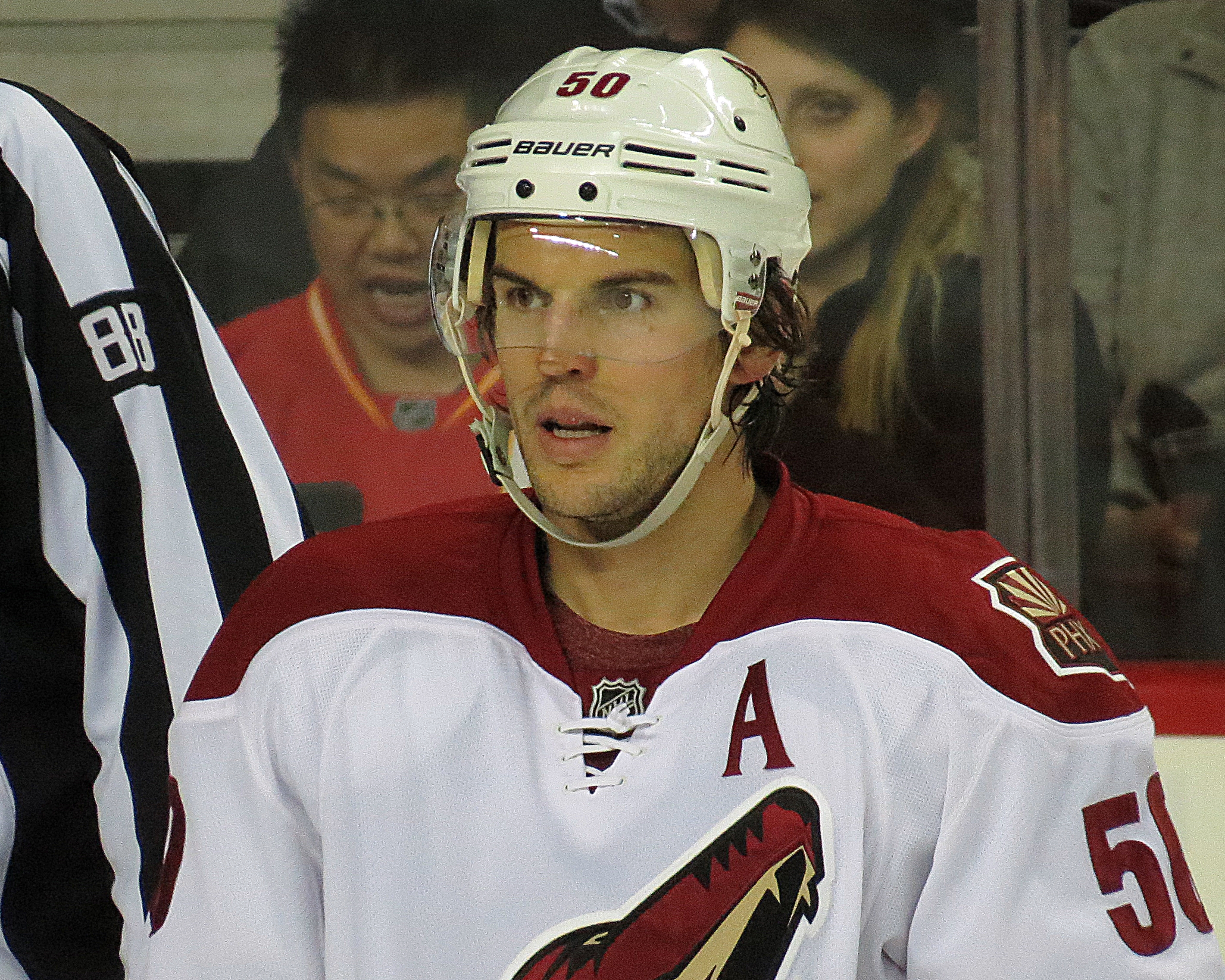 Vermette with the Coyotes during the 2013-14 season.